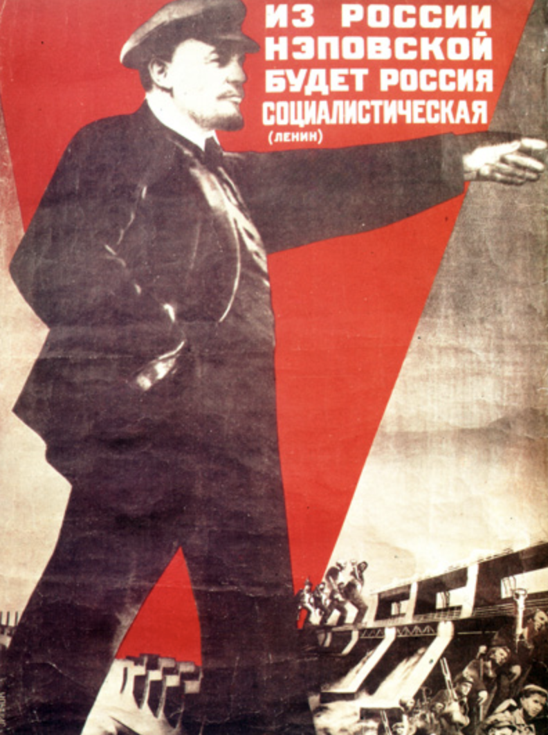 USSR Monetary Reform 1922~1924